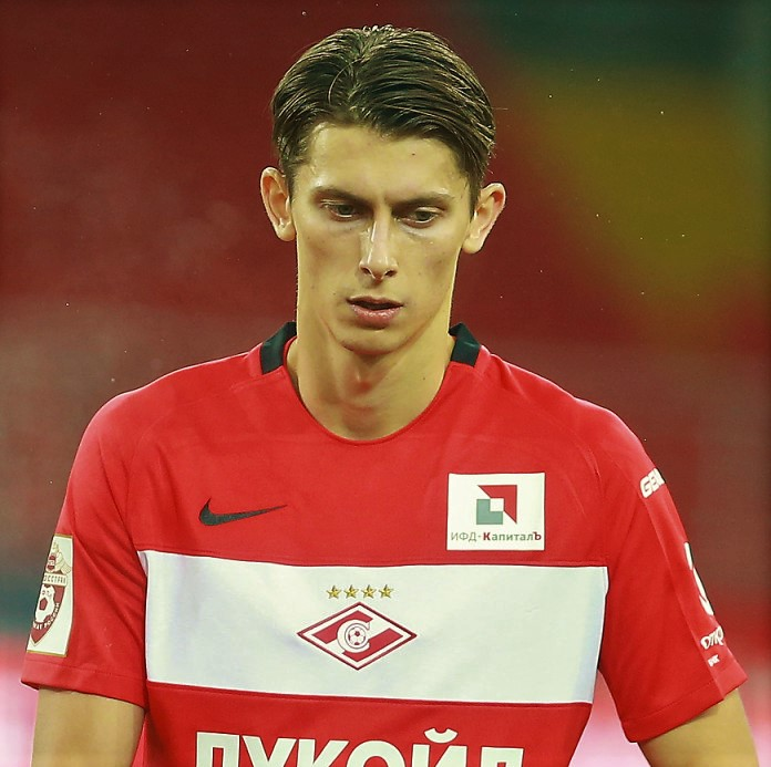 Ilya Kutepov